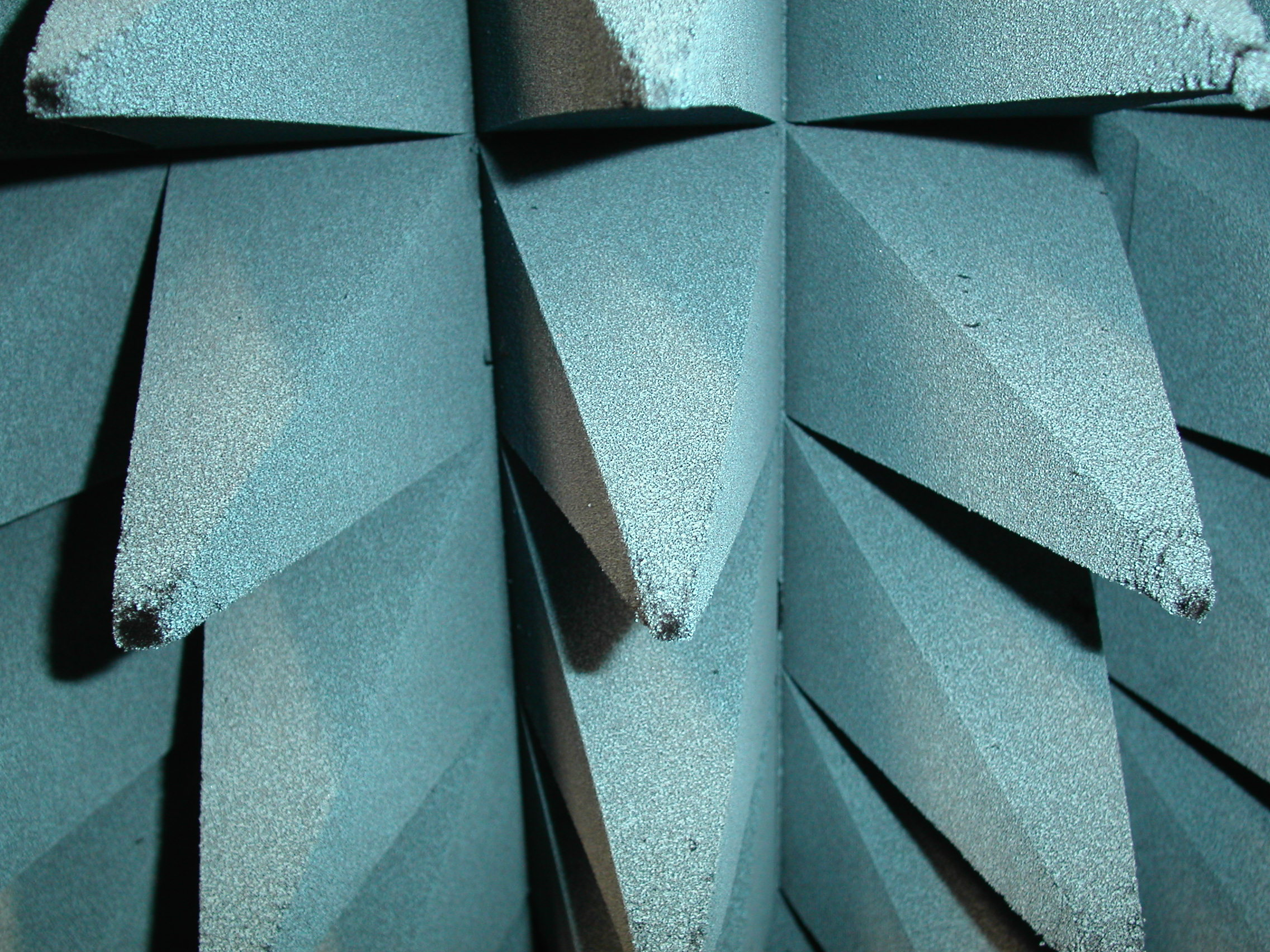 Wall of a anechoic chamber in Dwingeloo.